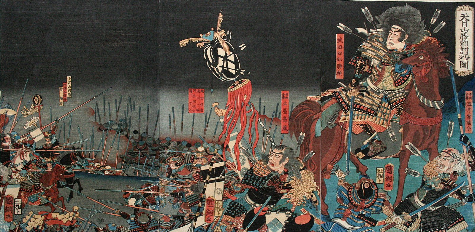 An ukiyo-e of Takeda Katsuyori died in the Battle of Temmokuzan.